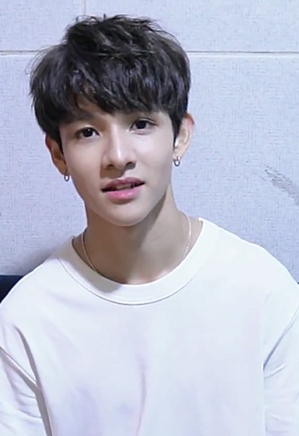 Samuel Kim during an interview on his showcase "Sixteen" on August 28, 2017.